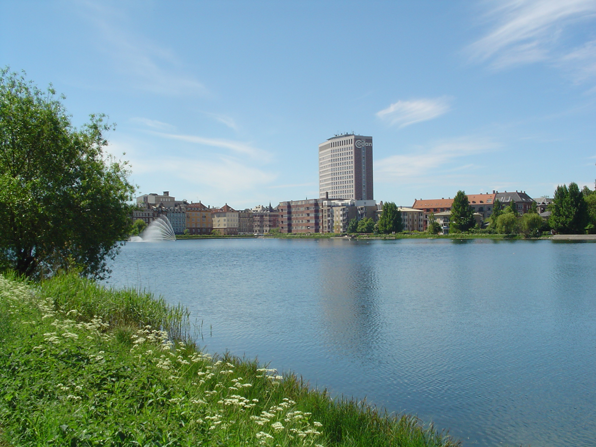 The Lakes in Copenhagen. Picture by me on 27/5-2005